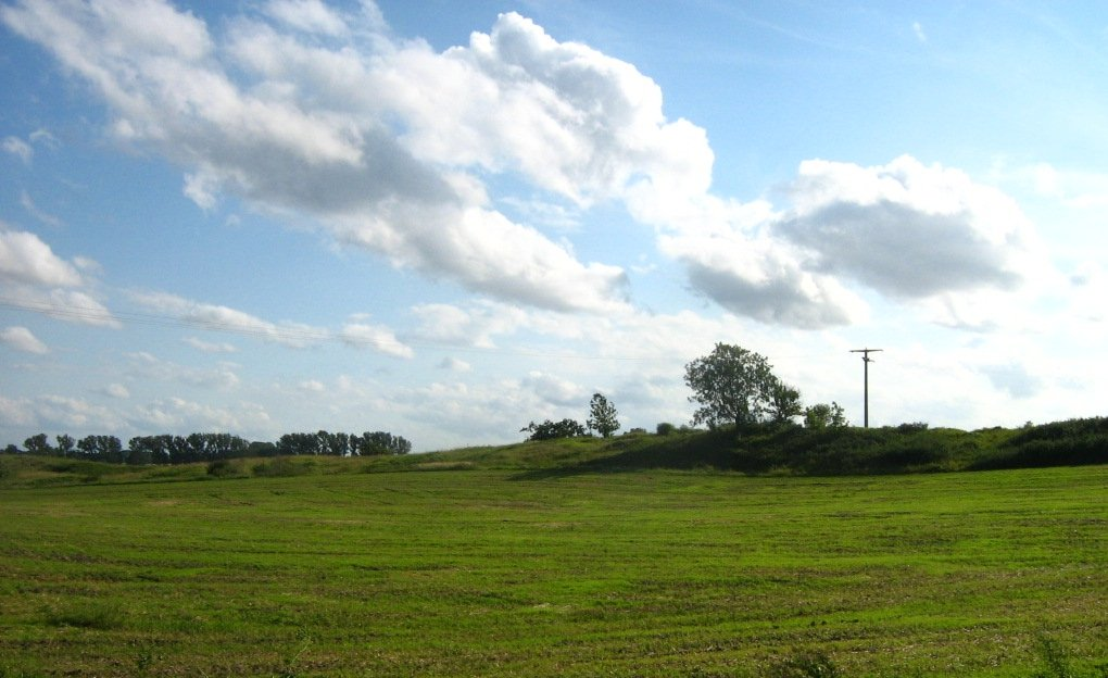 Esker are usually convenient in the basic-morainic-landscape sedimentations of bolders- and sand-material in glacier columns or tunnels. The Esker illustrated here runs in north-north-east - south-south-west direction of Gatschow in the north to Zettemin in the north-west of the district Mecklenburgische Seenplatte in Western-Pomerania and is the longest, more or less coherent Esker in Northeast-Germany.